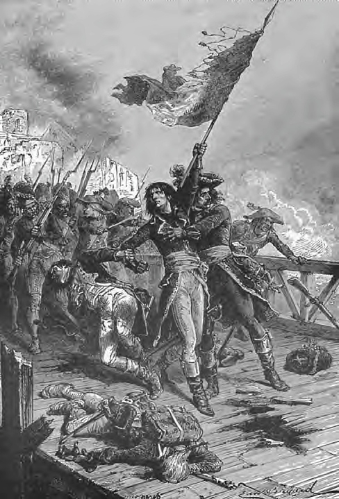 The young General Bonaparte, tricolor in hand, leads an attack across the bridge at Arcole, where he saved French forces from imminent defeat at the hands of a numerically superior Austrian army.